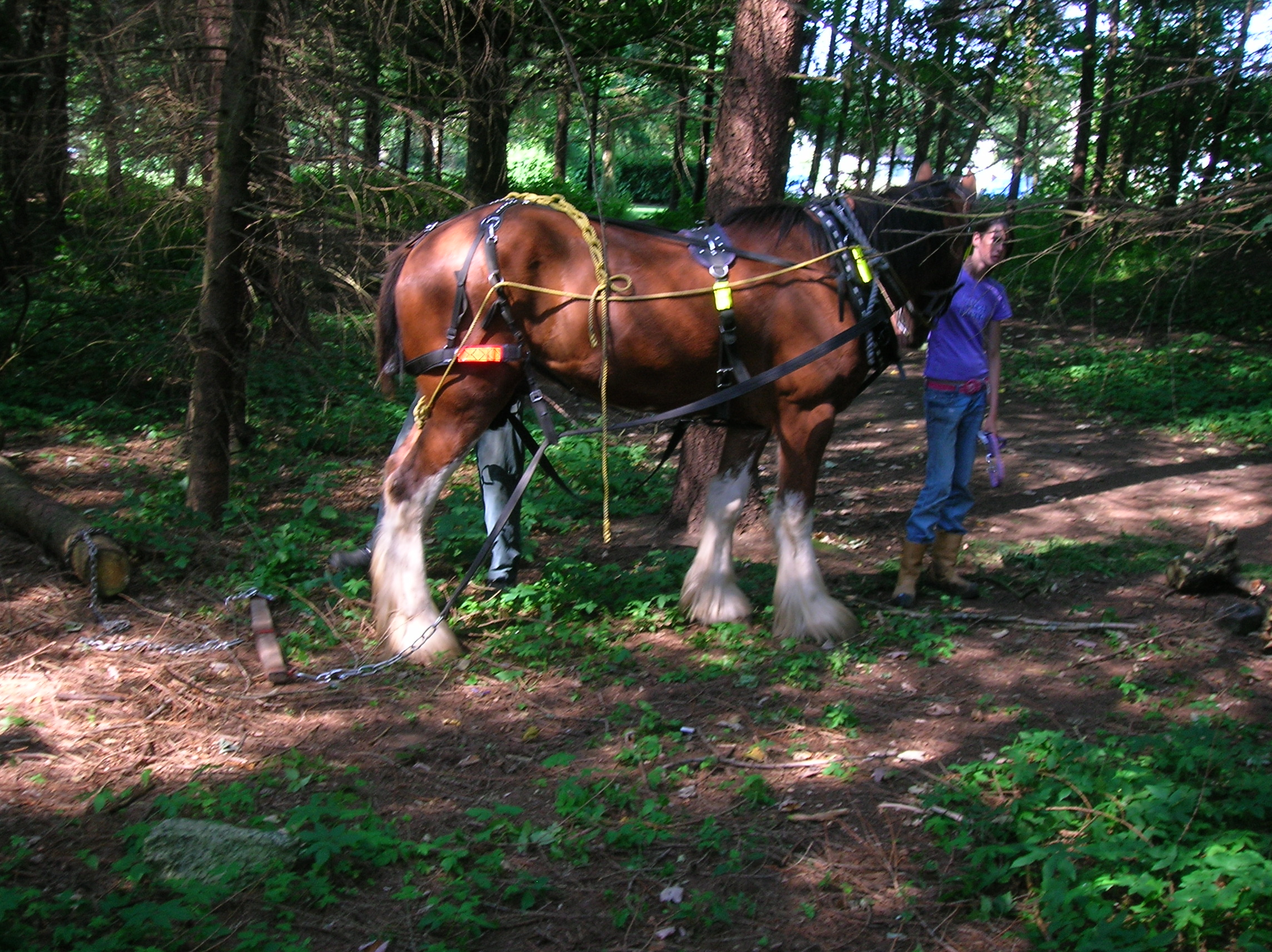 Logging with a Clydesdale Horse at Eglinton, Irvine, Scotland.